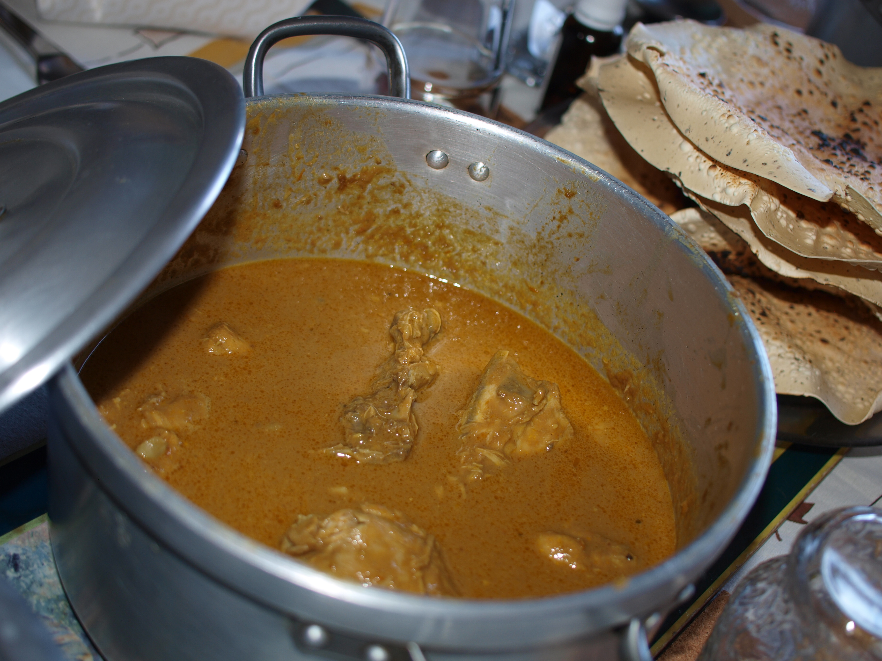 Caril de frango (chicken curry), a goan dish.